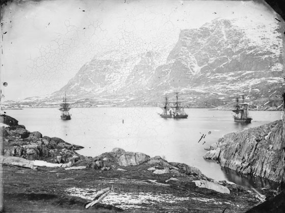 Reproduction ID: G4254 Maker: Captain Edward Augustus Inglefield Date: 1854 Inglefield's ships in the Arctic regions